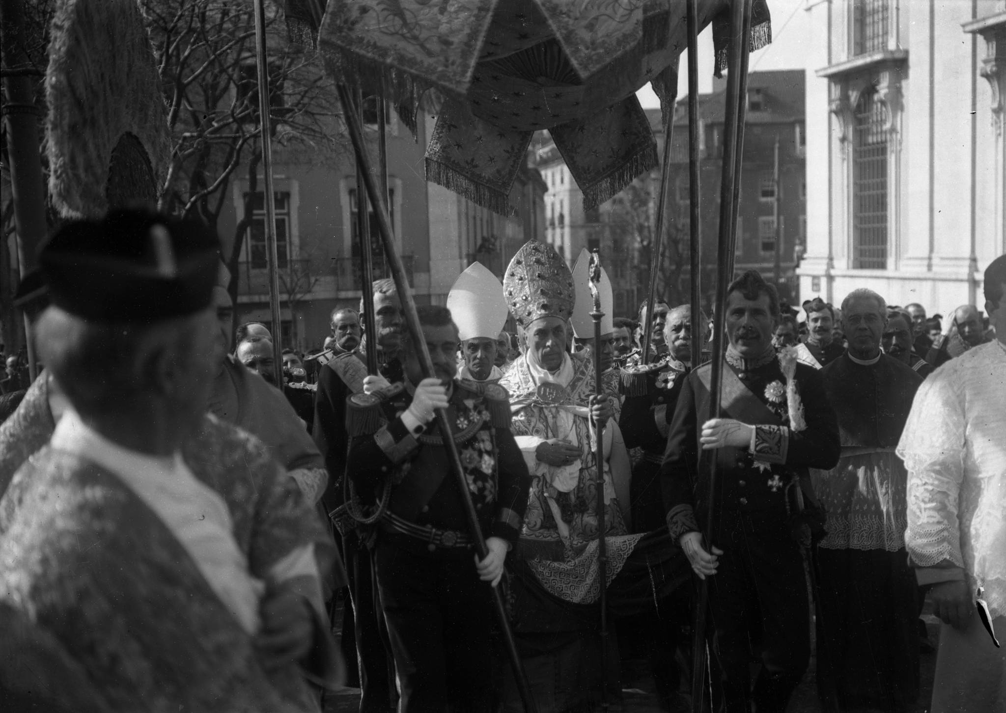 The procession during the investiture of António Mendes Bello as Cardinal-Patriarch of Lisbon, 1908.